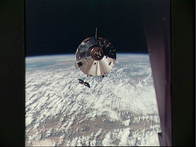 Apollo 9 Command and Service Modules (CSM)